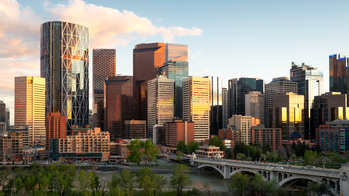 Central portion of Calgary skyline, taken from the northeast across the river.